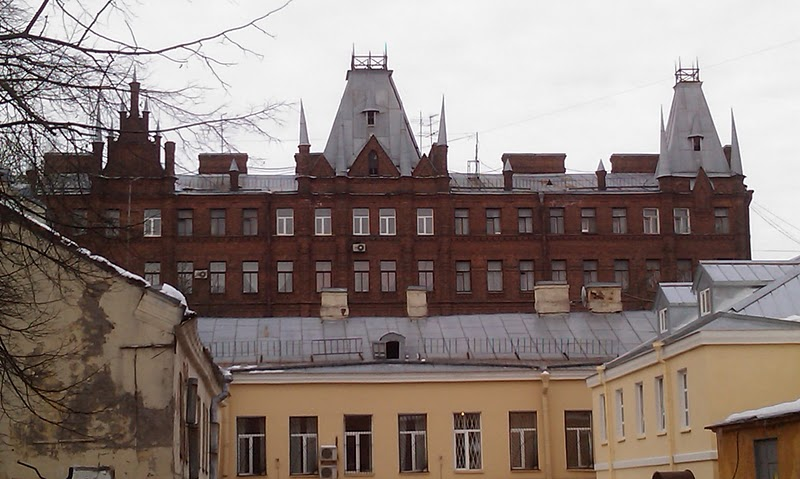 Red brick building. Building number 46, 14-line, Vasilievsky Island, Saint-Petersburg, Russia.